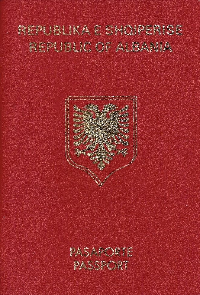 Cover of an Albanian non-biometric passport